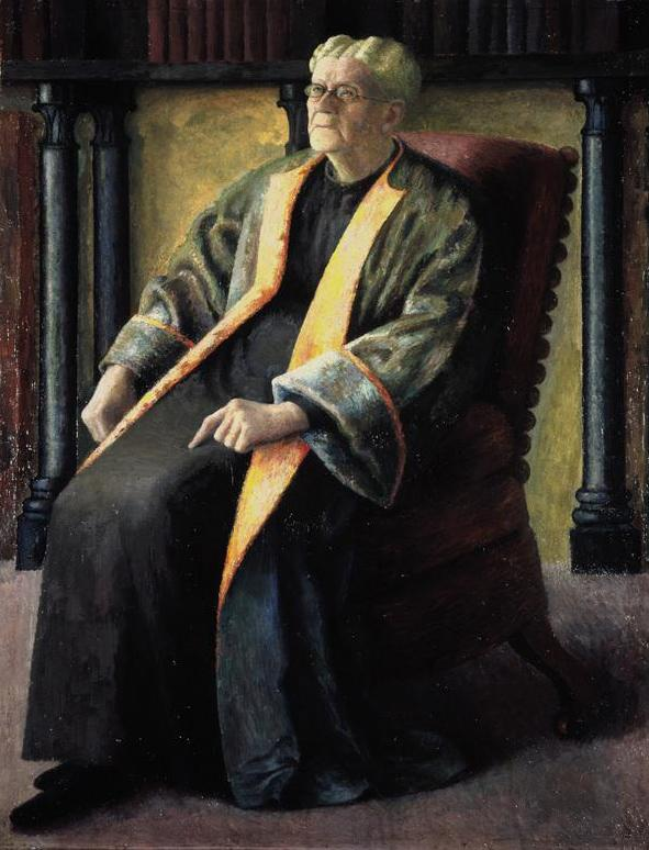 Jane Maria Strachey (13 March 1840 – 14 December 1928) was an English suffragist and writer. by Dora Carrington in 1920